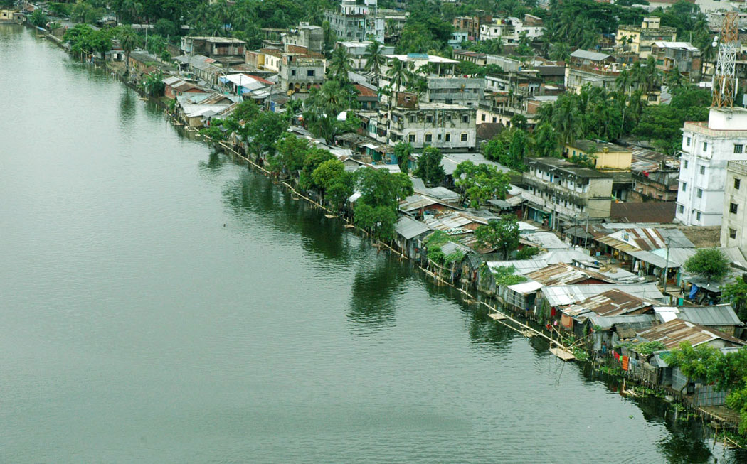 Photos of Agrabad, Chittagong